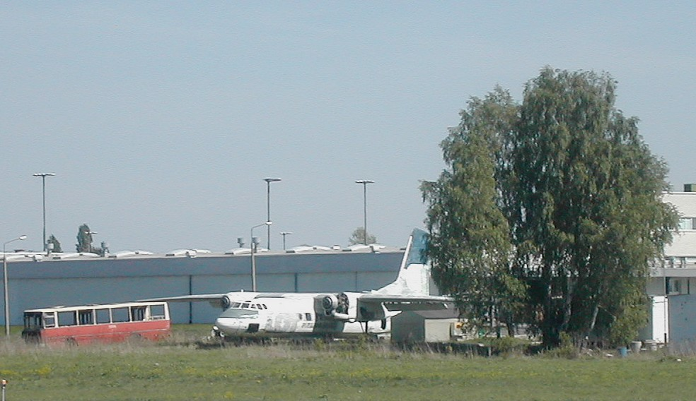 Ikarus 260 and Antonov An-24 of LOT as firefighters training facility at Warsaw Okecie Airport